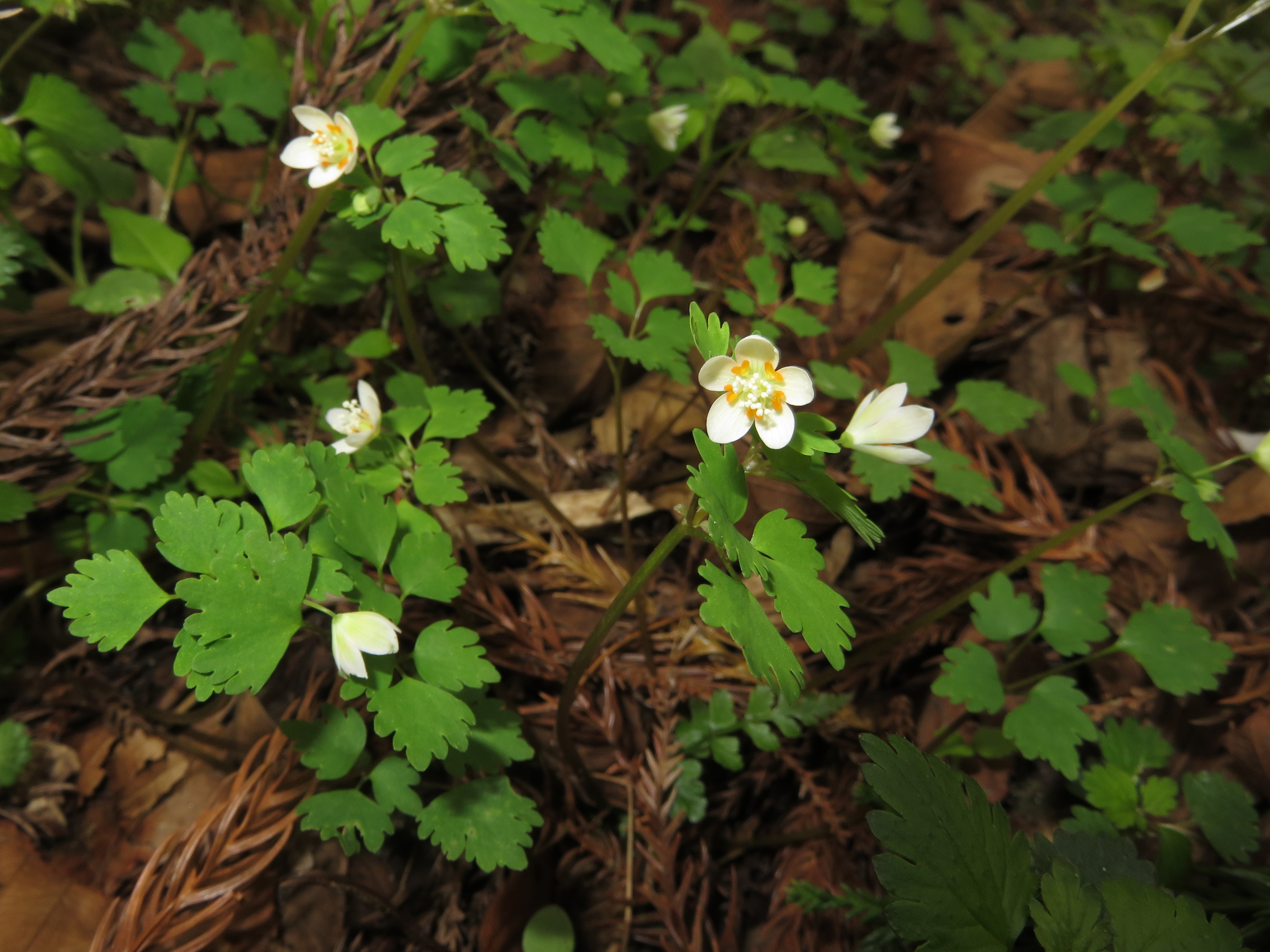 Dichocarpum trachyspermum, Hama-dori area, Fukushima pref., Japan